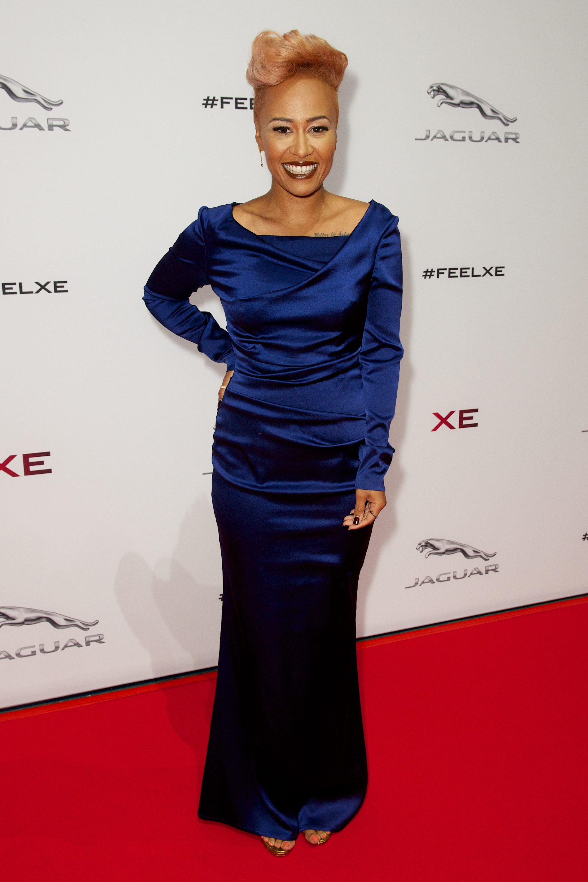 Emeli Sande was a guest of Jaguar at the reveal of the new XE in London, Monday 8th September 2014.